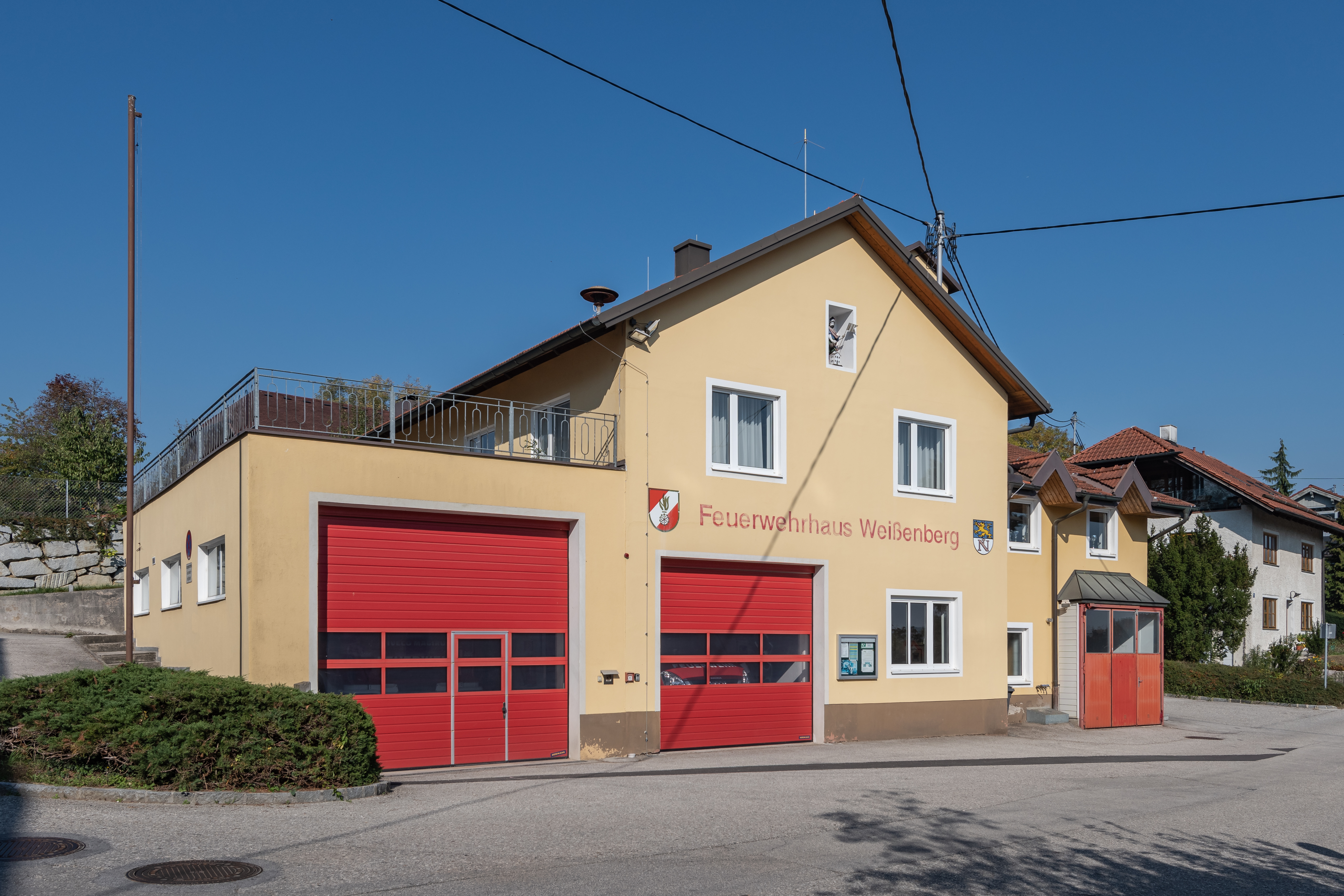 There are two fire brigades in Neuhofen an der Krems. This one is located in Weißenberg at the border to the community of Ansfelden.